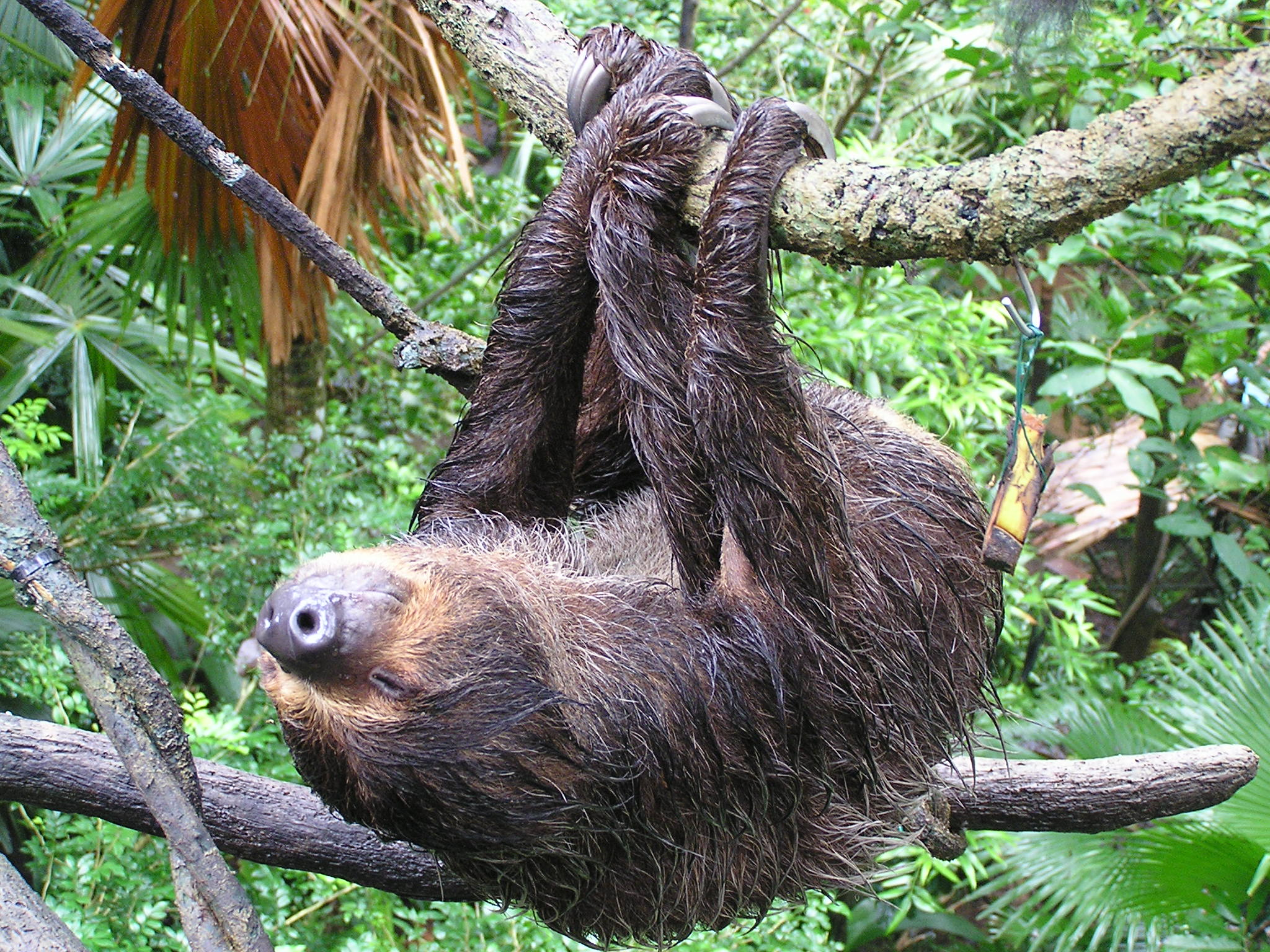 Hoffmann's Two-toed Sloth. Choloepus hoffmanni